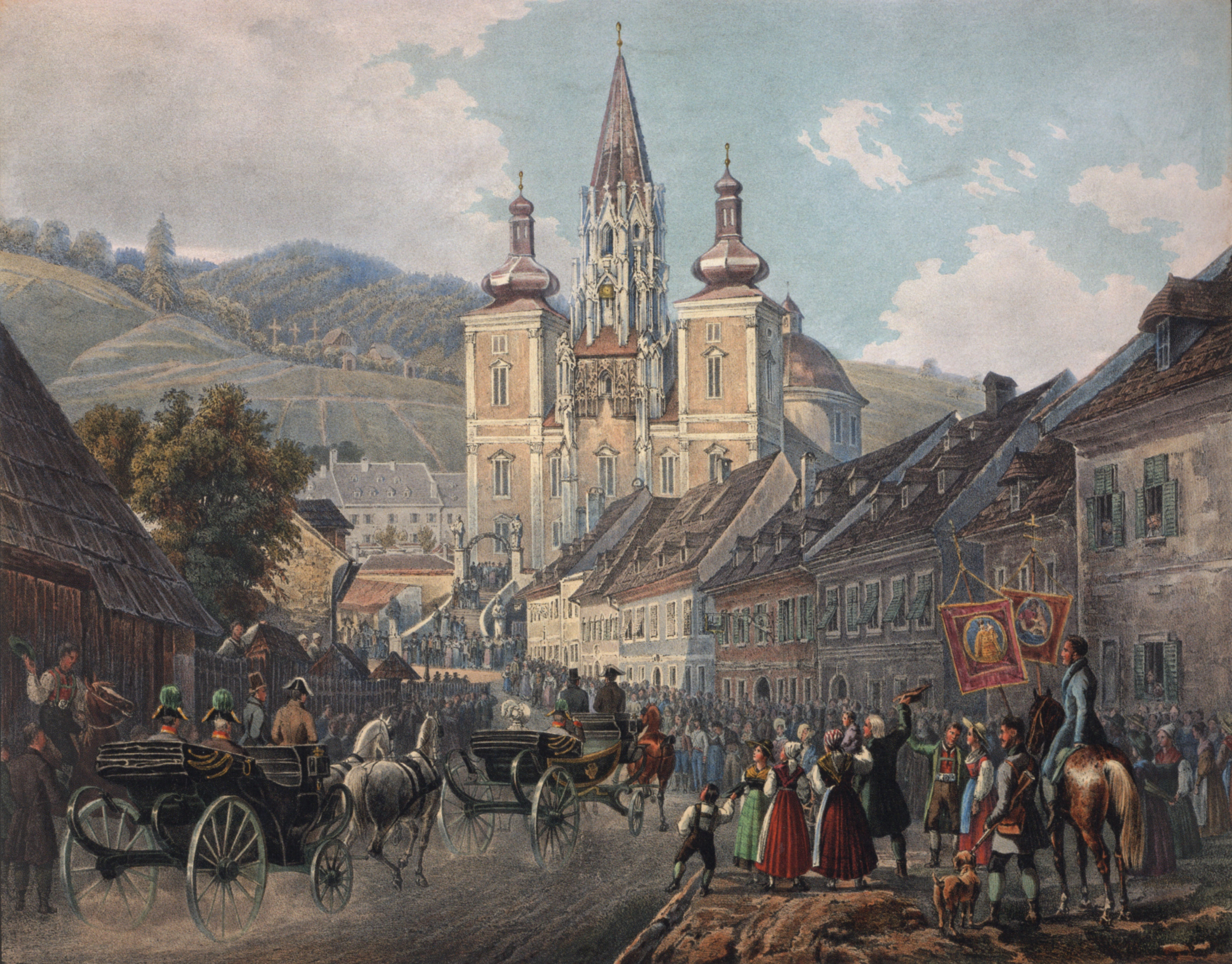 Mariazell on September 5th, 1837. Coloured lithograph